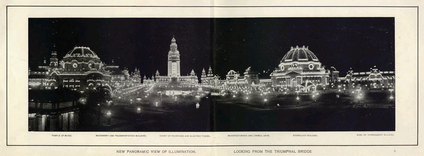 Pan-American Exhibition, Buffalo, New York, 1901, panorama view